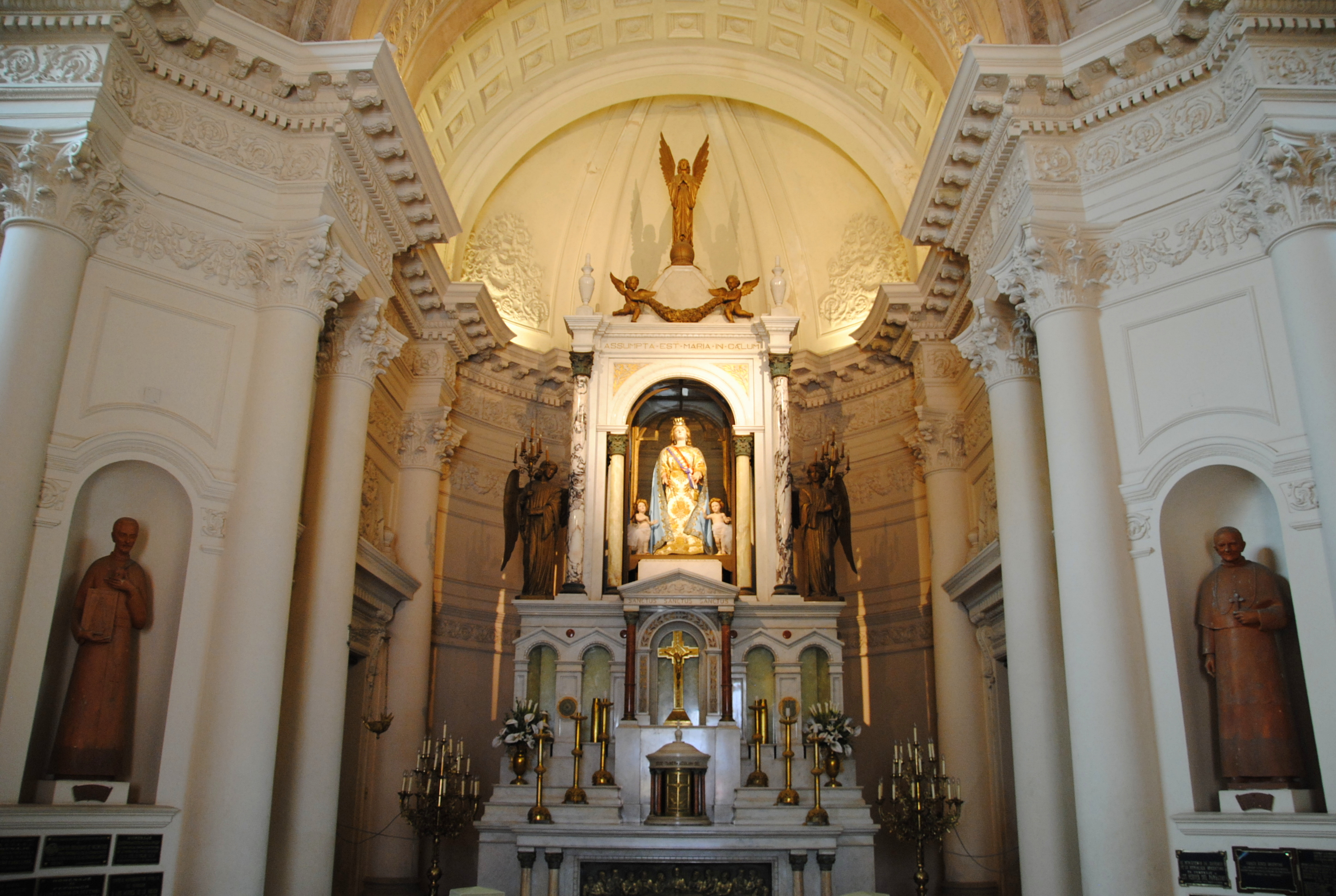 The National Pantheon of the Heroes, Paraguay.